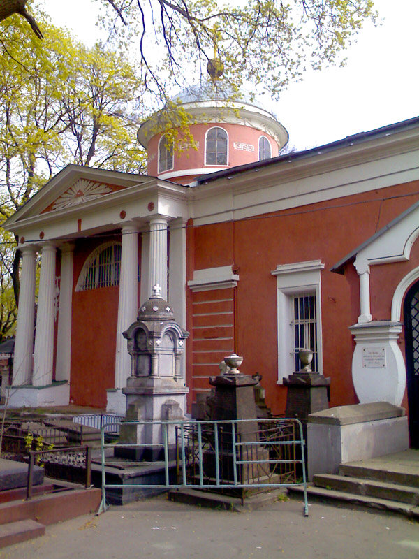 Donskoy monastery in Moscow